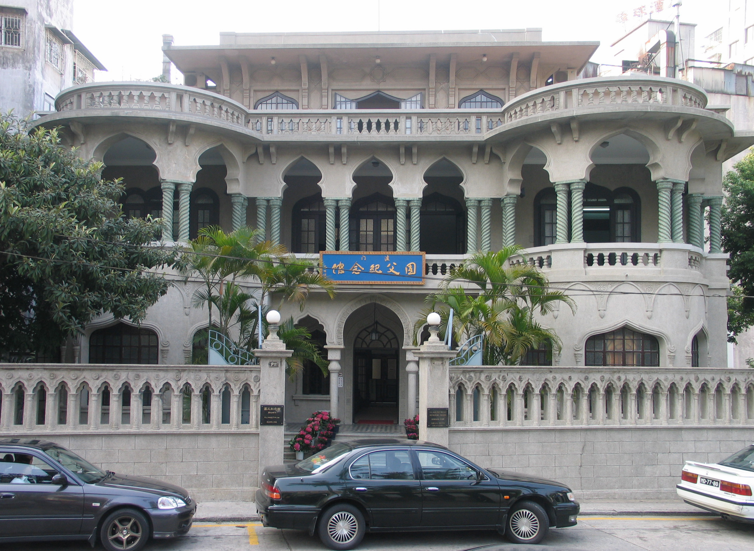 位於澳門文第士街的國父紀念館，亦為孫中山原配夫人盧慕貞於澳門的住所。 Sun Yat Sen Memorial House in Macao. This place was once the house of Dr. Sun Yat Sen's first wife. Photo taken by Glio